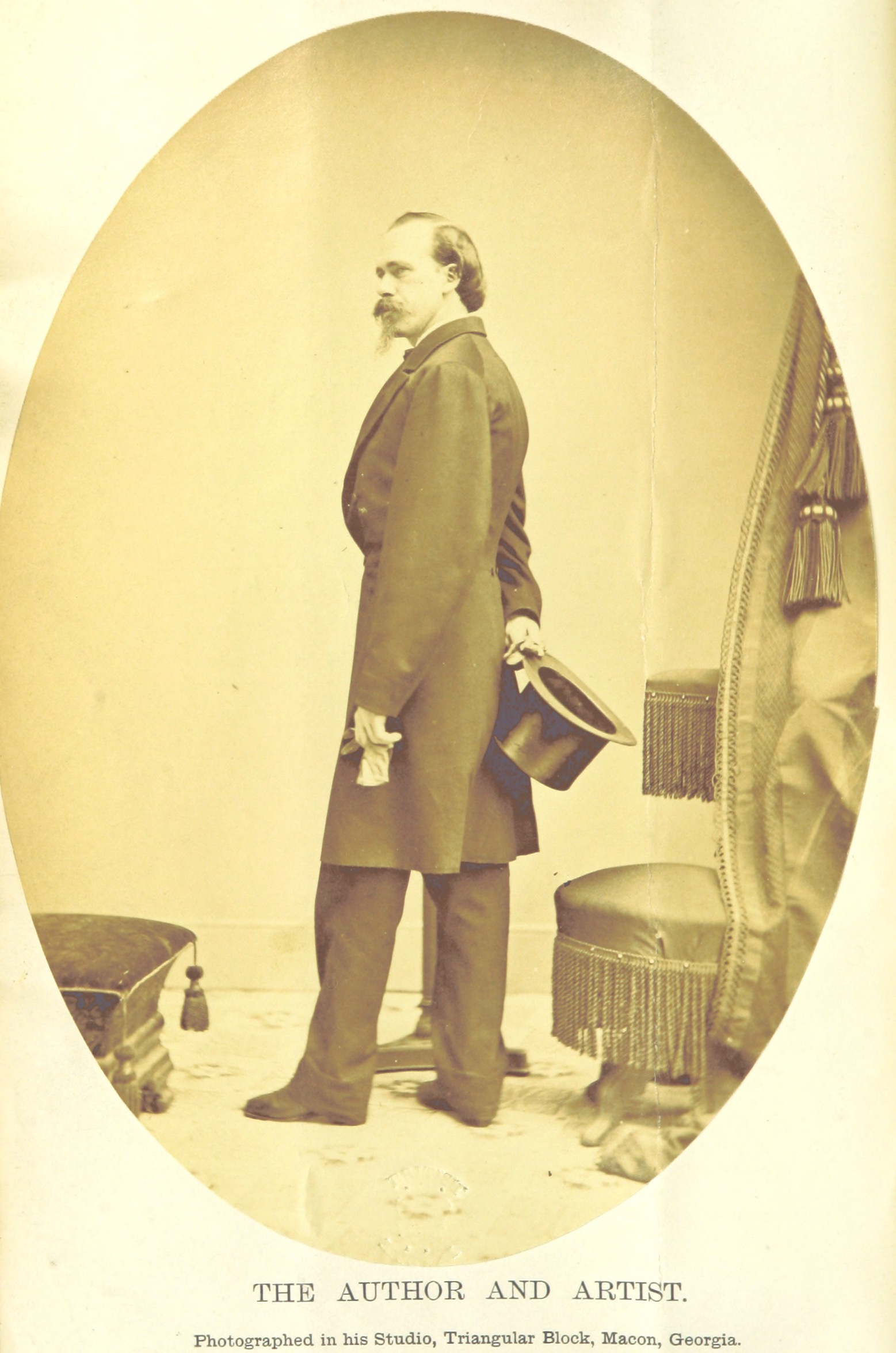 Self portrait albumen print of Pugh in a book he published titled " 'Leaves of a Wanderer; being notes ... of travel in Europe, etc."